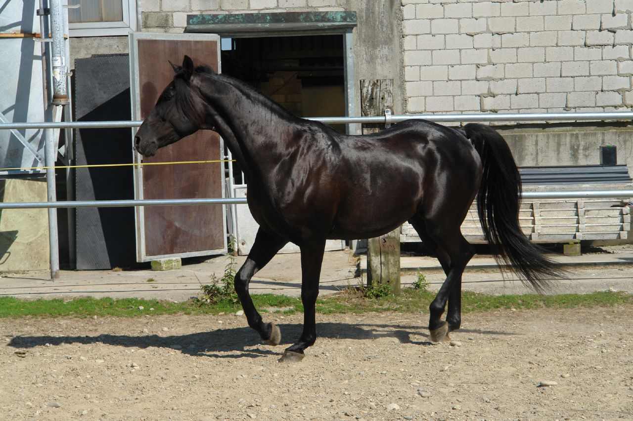 Arabian horse